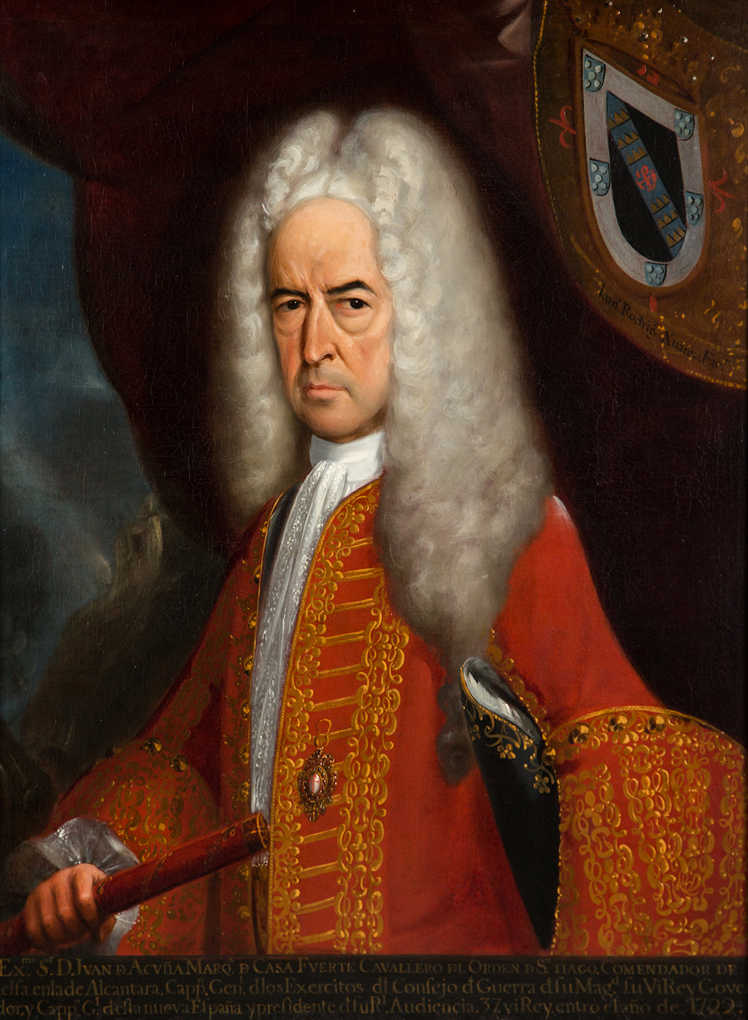 Portrait of the Viceroy of New Spain, Juan de Acuña, 2nd Marquis of Casa Fuerte (1658-1734)